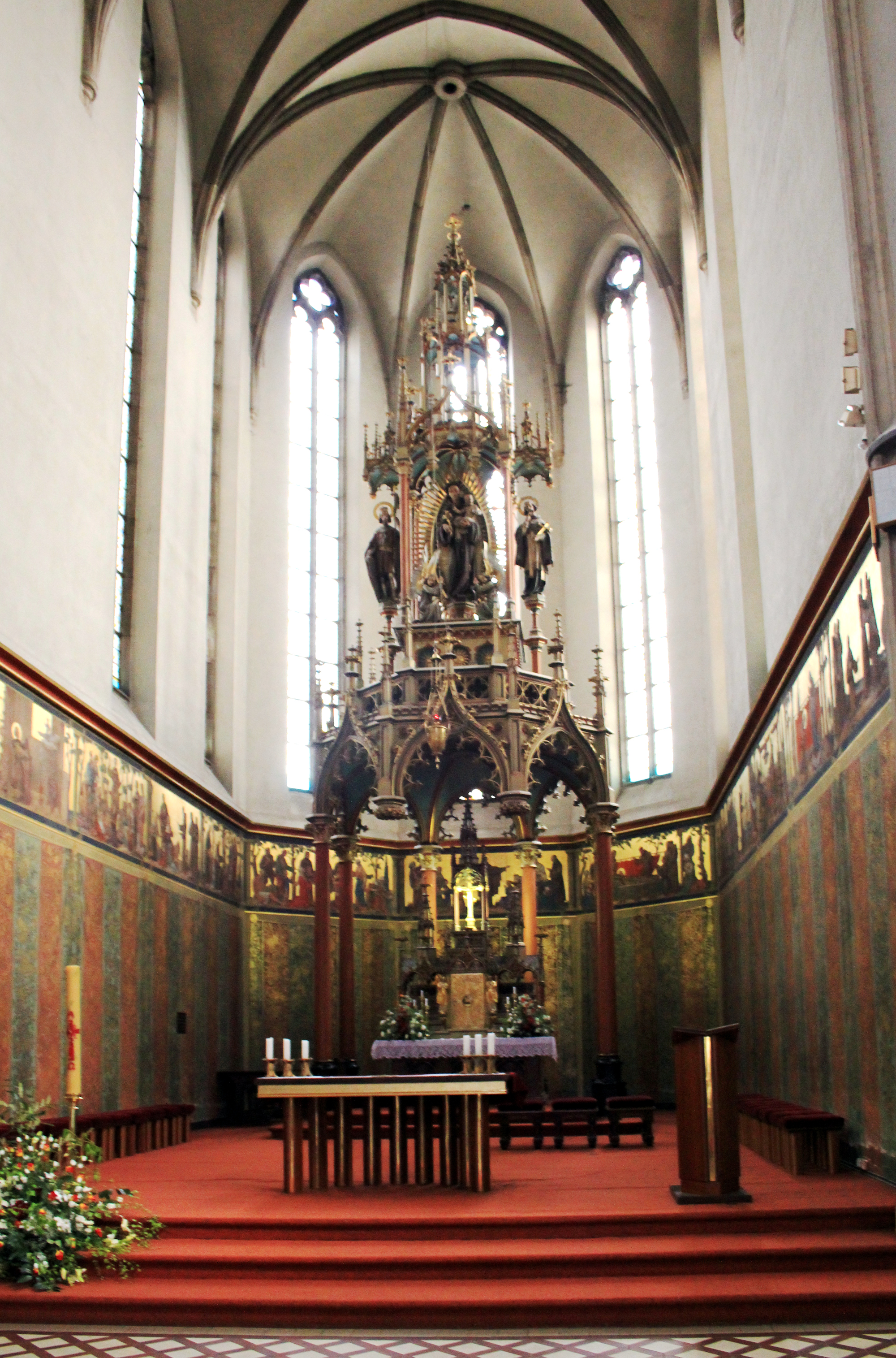 Iterior of Church of Saint Anthony of Padua, in Prague , Holešovice, Czech Republic